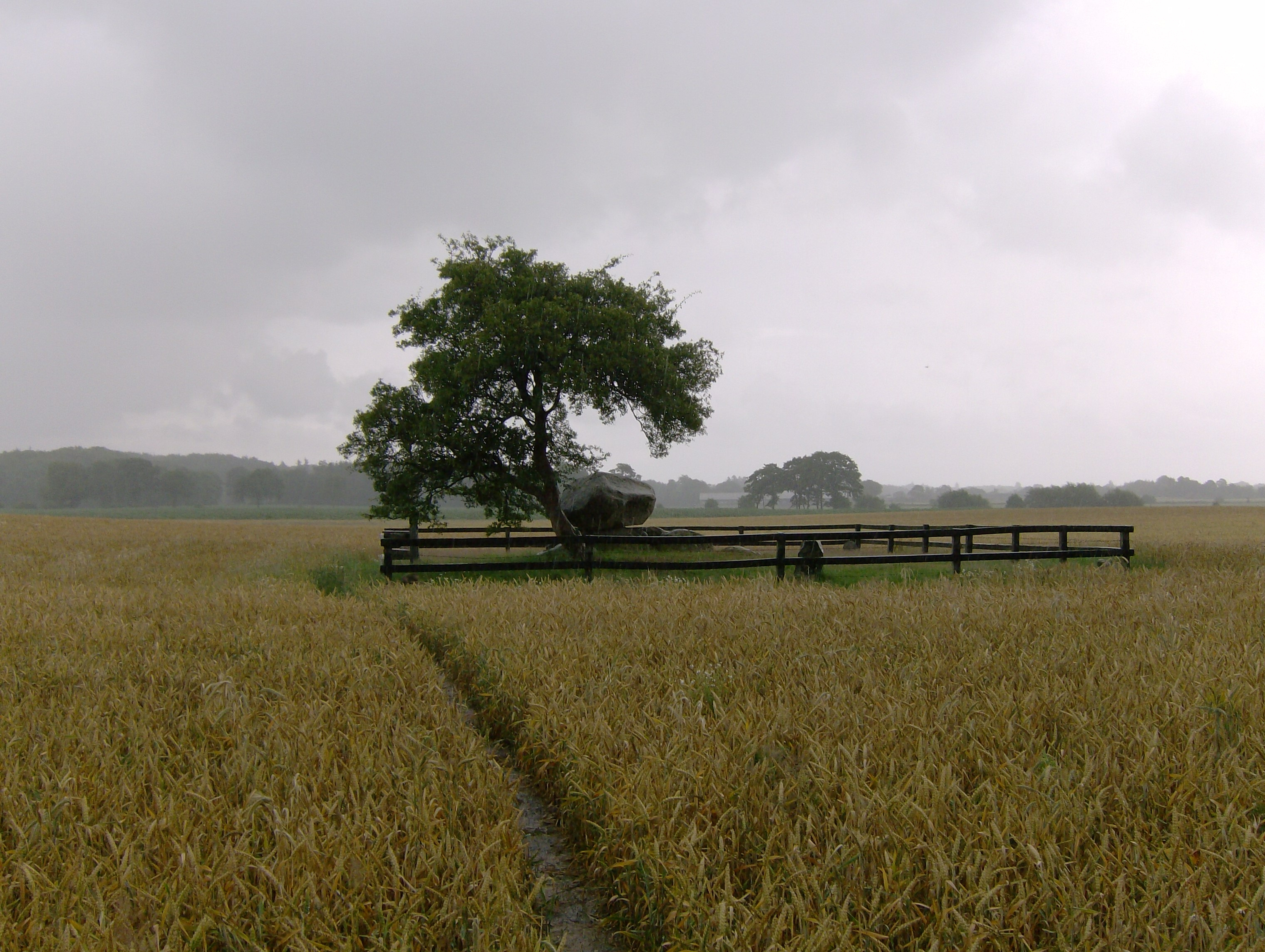 The Poppostein (also called: Taufstein), a megalithic grave close to Helligbek, Gemeinde Sieverstedt, in Schleswig-Holstein, Germany